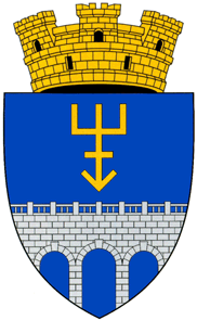 CoA of Edineț.gif